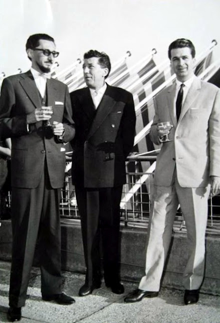 Pekic, Nikola Milošević (politician) and Zdravko Velimirović, 1961